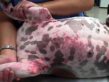 Dog with contact allergic dermatitis to outdoor plant